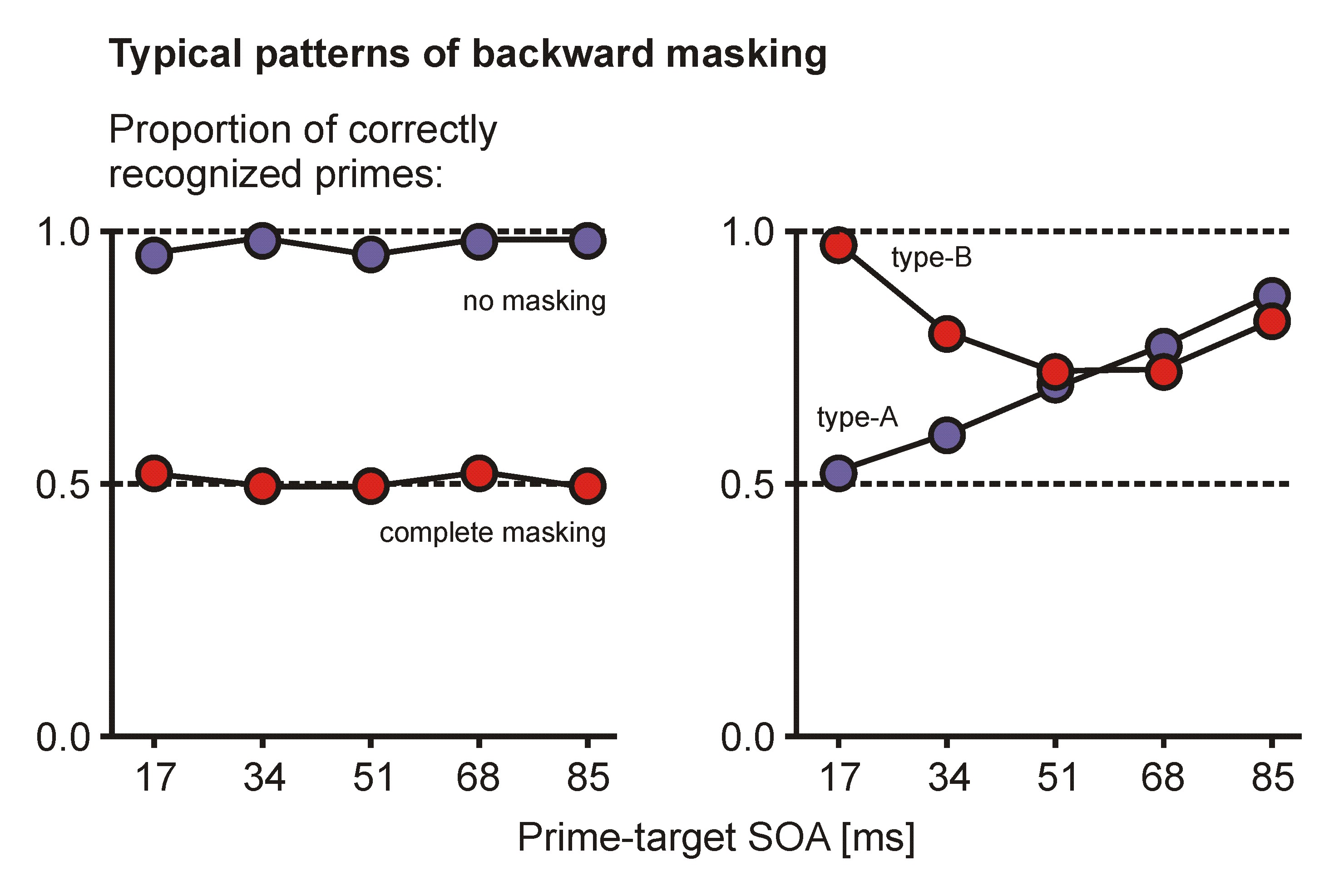 Typical pattern of backward masking